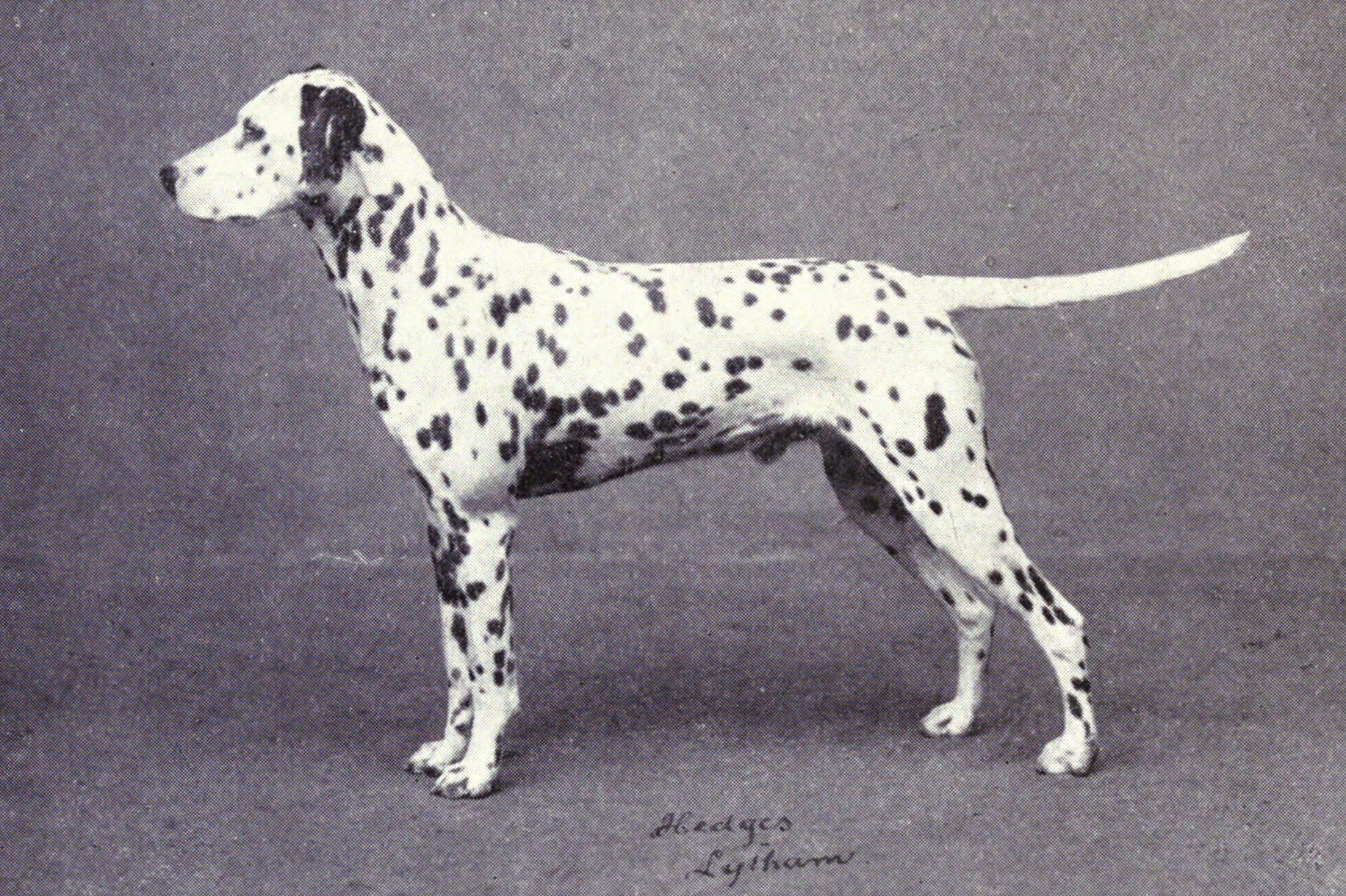 Dalmatian from 1915